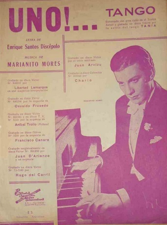 Partiture tango "Uno" by Mariano Mores & Enrique Santos Discépolo. Buenos Aires, 1943